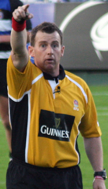 Nigel Owens, Welsh rugby union referee, officiating the 2009 Guinness Premiership match between Bath and Leicester Tigers.